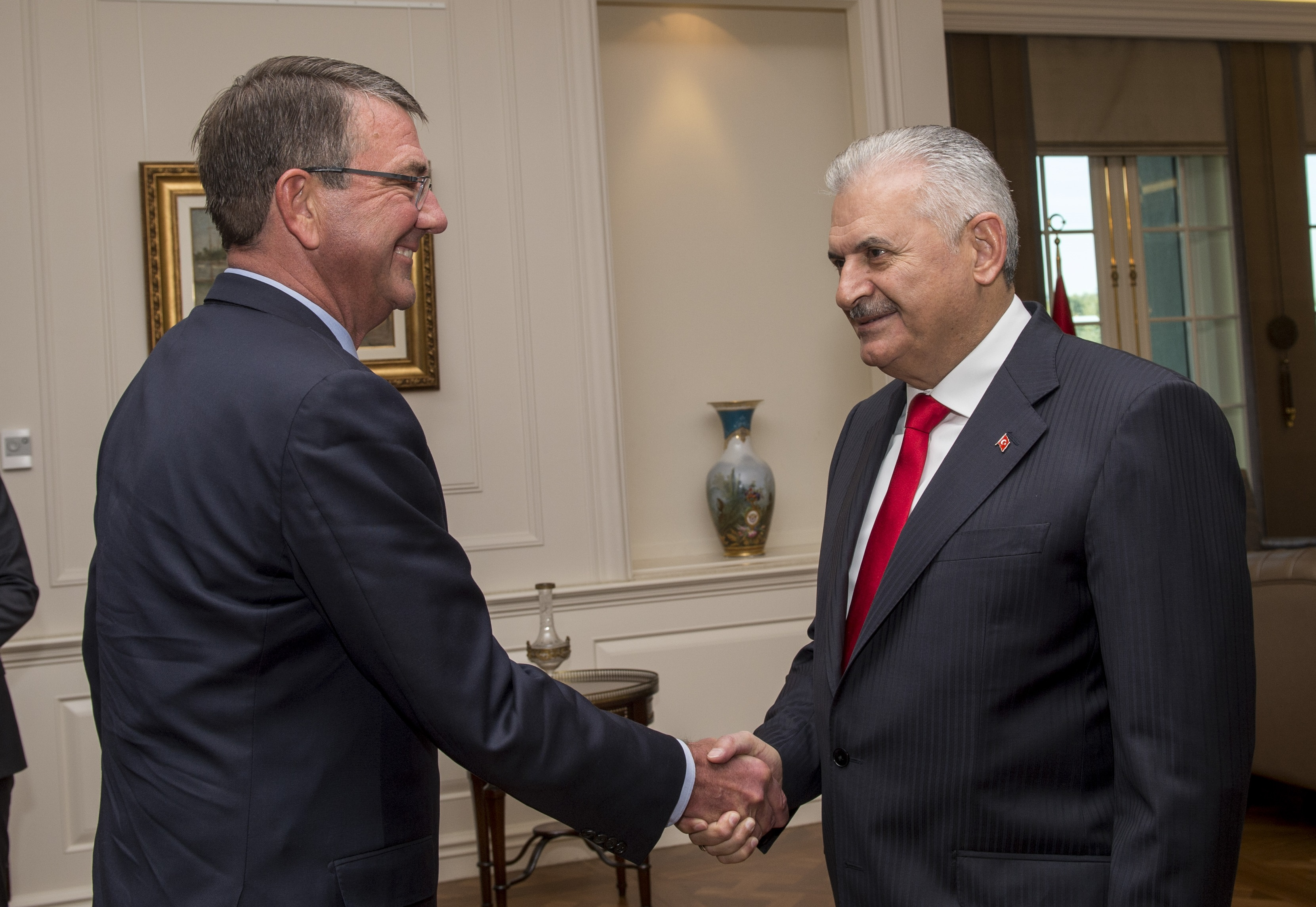 Secretary of Defense Ash Carter meets with Turkish Prime Minister Binali Yildirim in Ankara, Turkey, Oct. 21, 2016